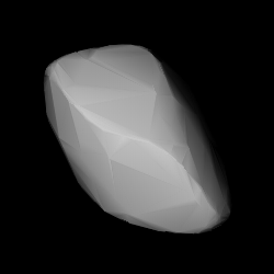 3D convex shape model of 1105 Fragaria, computed using light curve inversion techniques. J. Hanuš, J. Ďurech, M. Brož, B. D. Warner (June 2011). "A study of asteroid pole-latitude distribution based on an extended set of shape models derived by the lightcurve inversion method". Astronomy and Astrophysics 530: A134. ISSN 0004-6361. arXiv